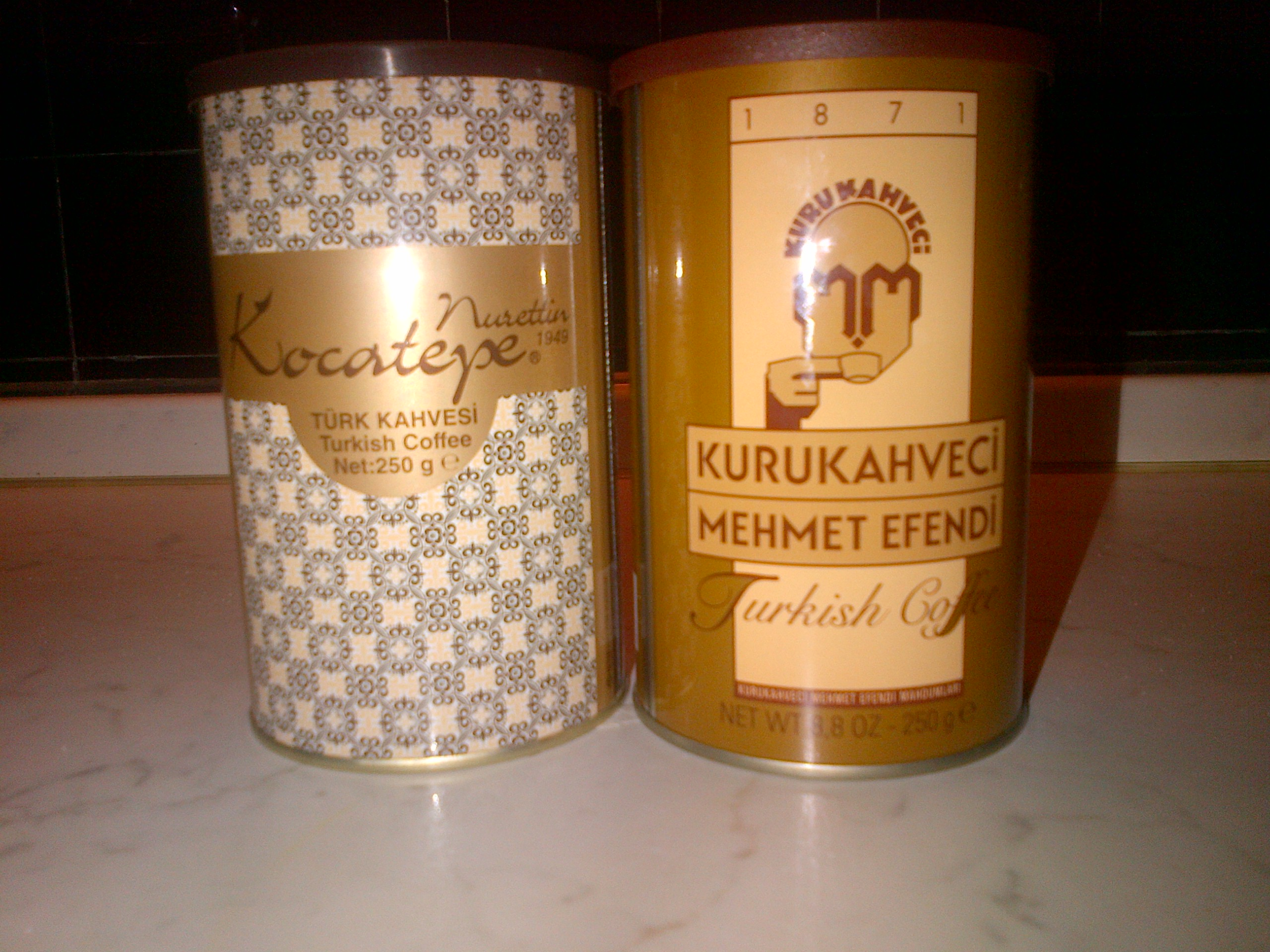 Two traditional Turkish coffee producers and coffee shops, one is Kurukahveci Mehmet Efendi, established in 1871 at Istanbul and the other Kocatepe established at Ankara in 1949.